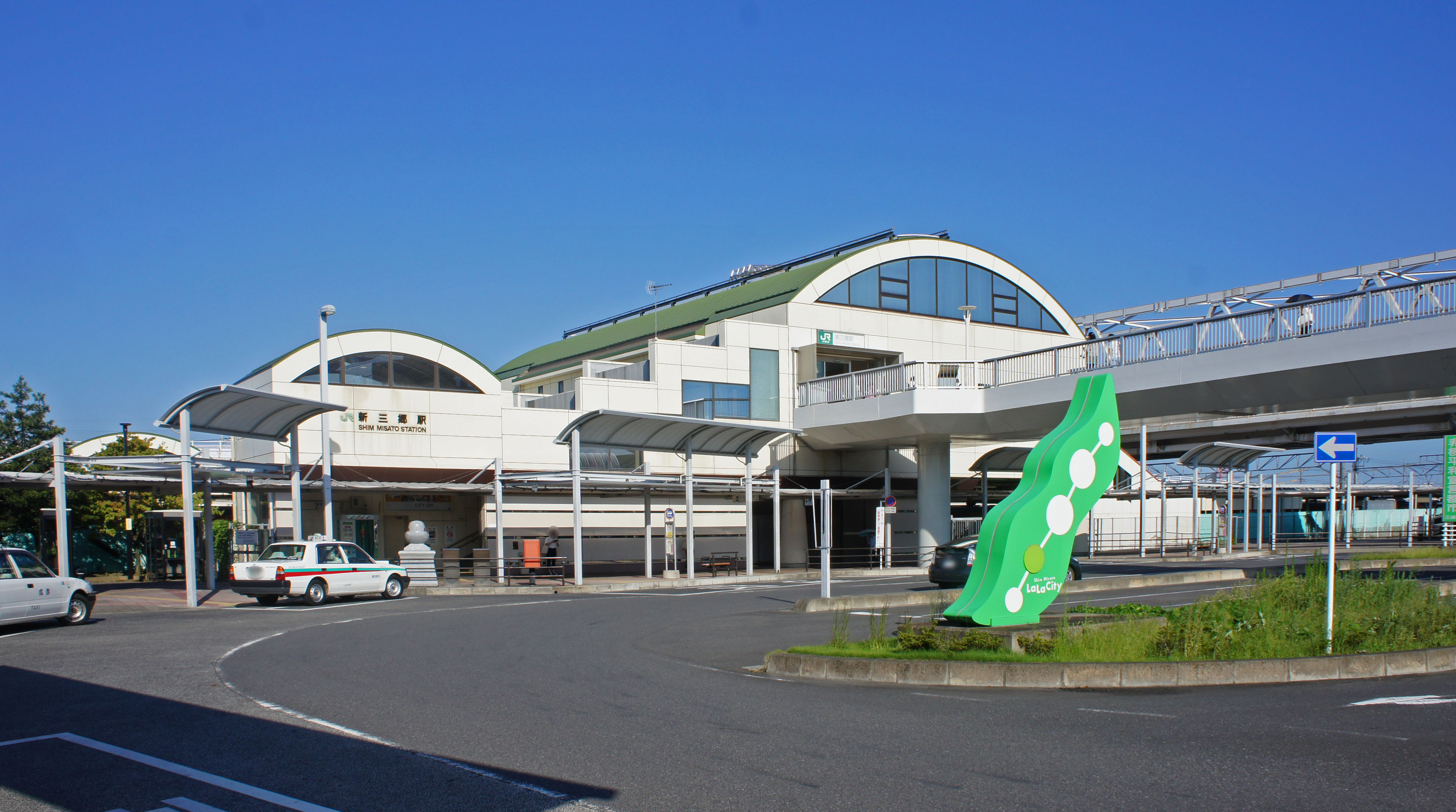 West Exit of JR Musashino-Line Shin-Misato Station